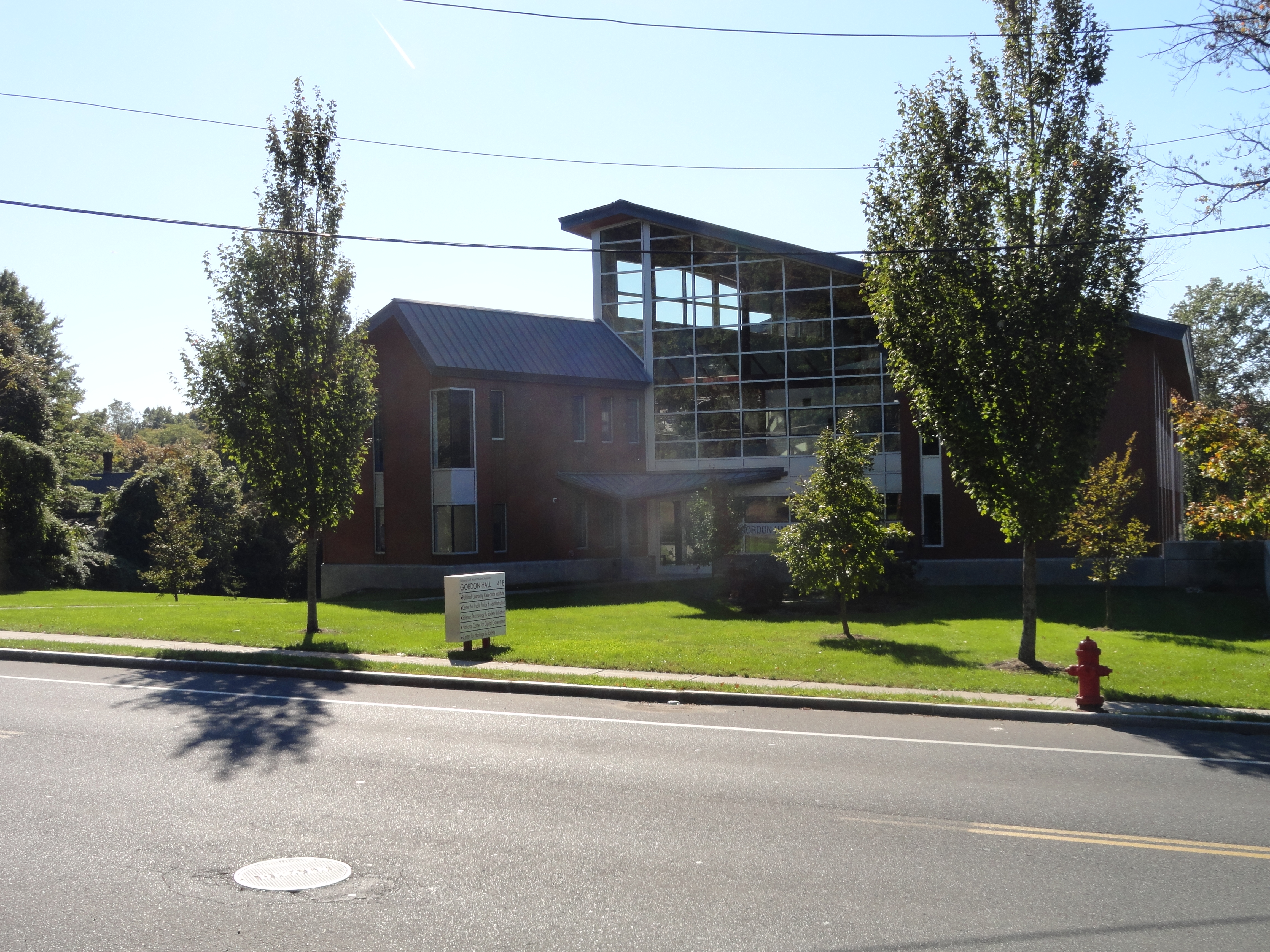 Glen Gordon Hall at the University of Massachusetts Amherst.